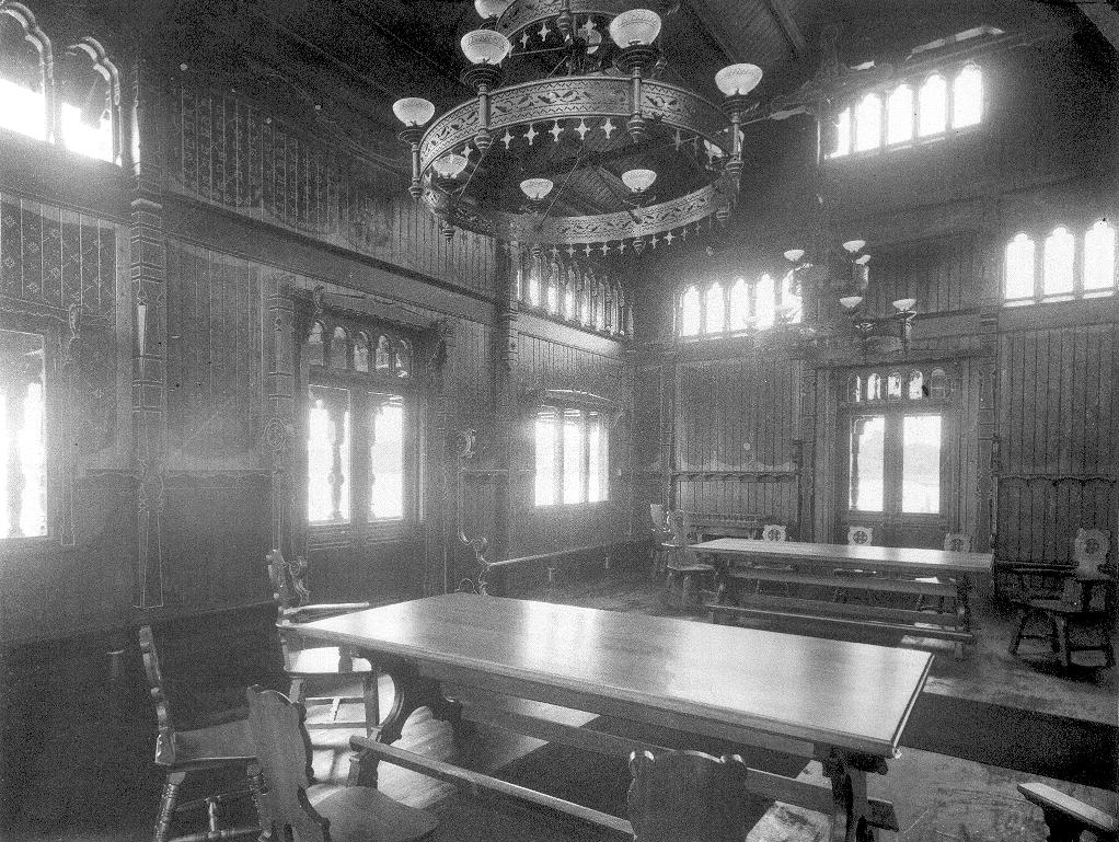 Hall of the reception pavilion ("Ventehalle") of the sailors' station Kongsnæs in Potsdam, Germany